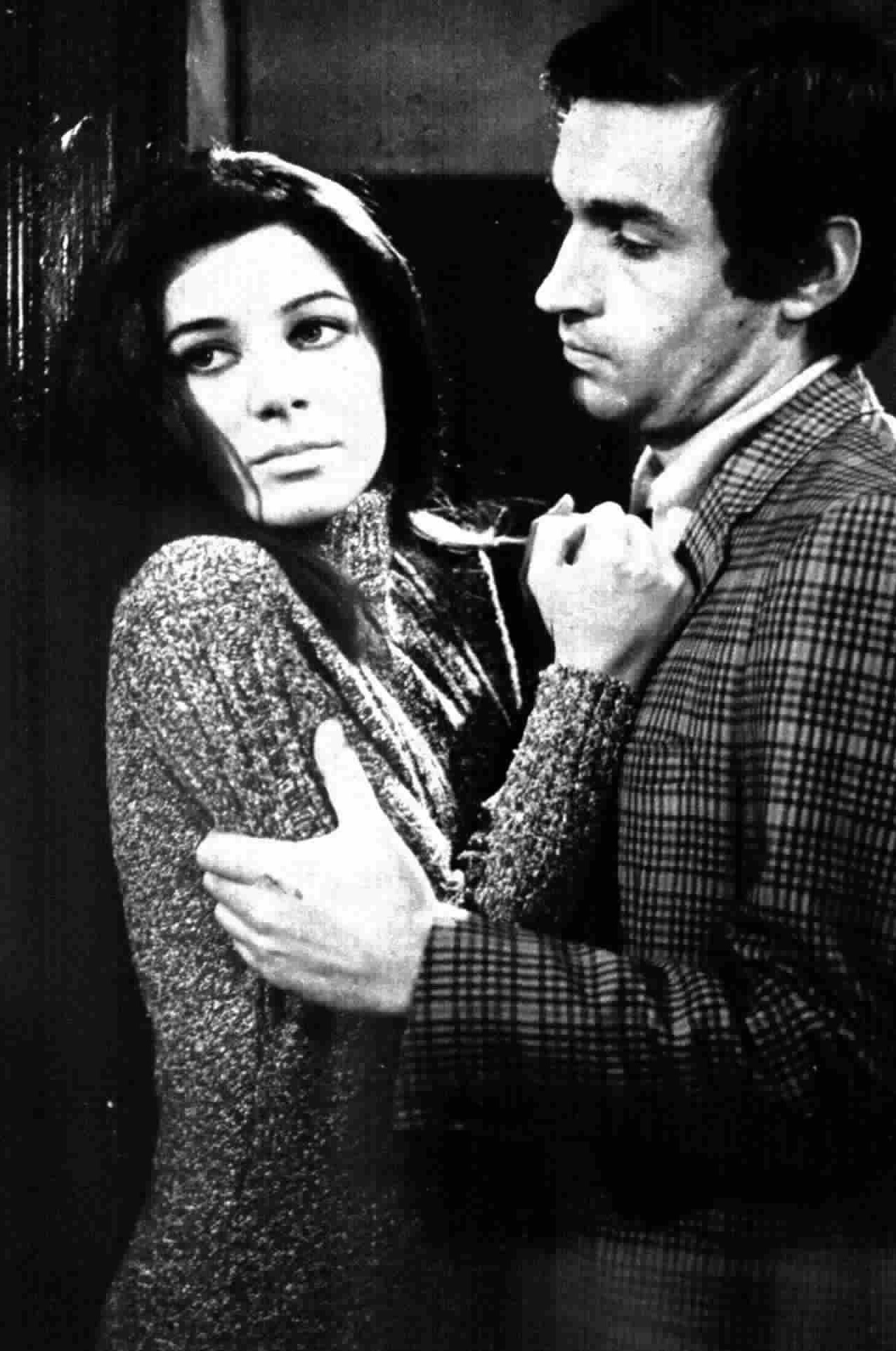 Italian actors Stefania Casini and Antonello Campodifiori shooting an Italian TV series